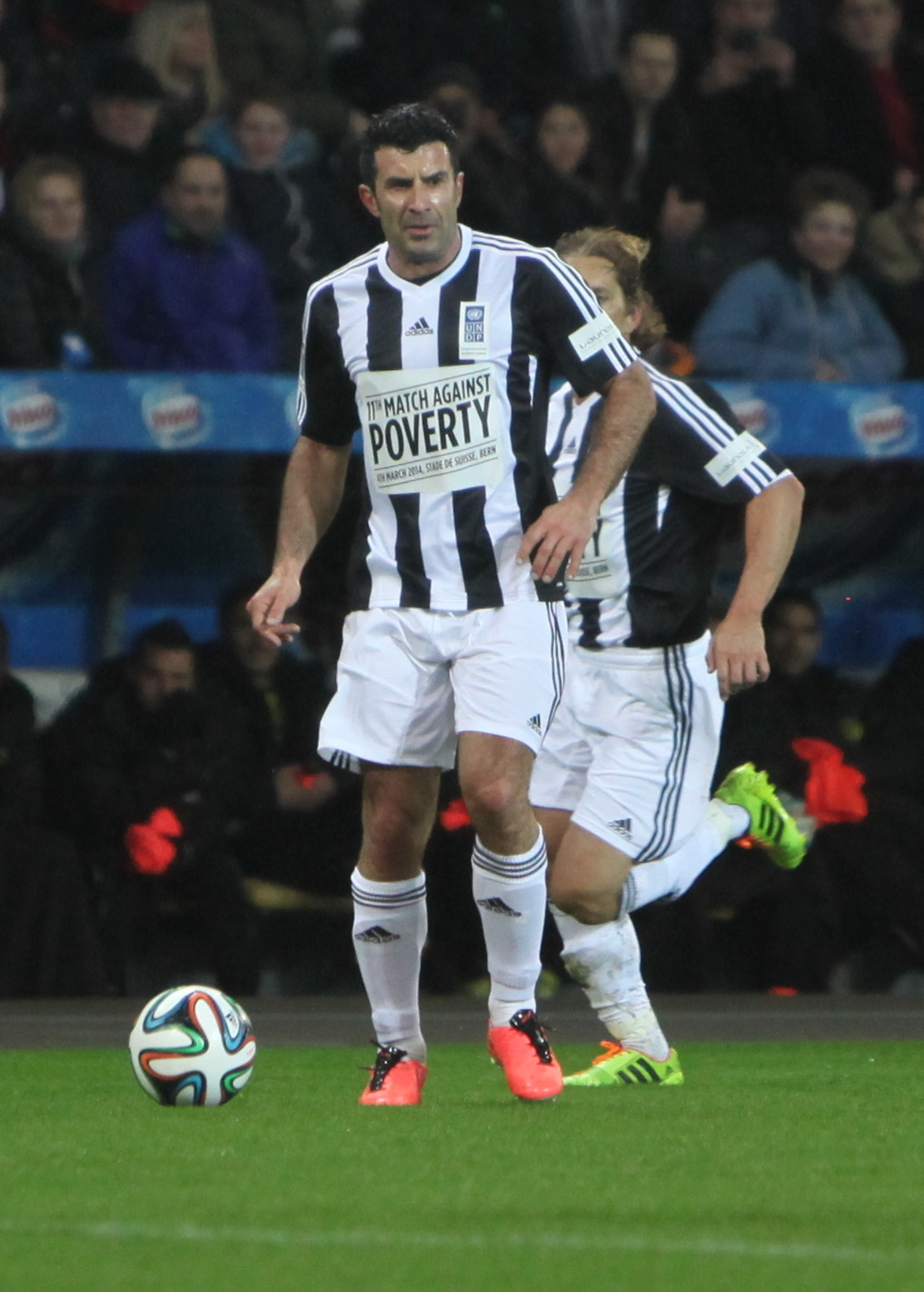 Football against poverty 2014 - Luís Figo